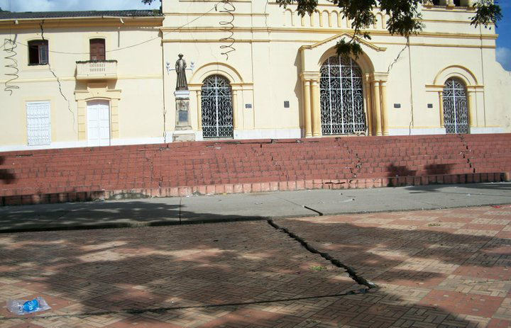 gramaltoe's destruction